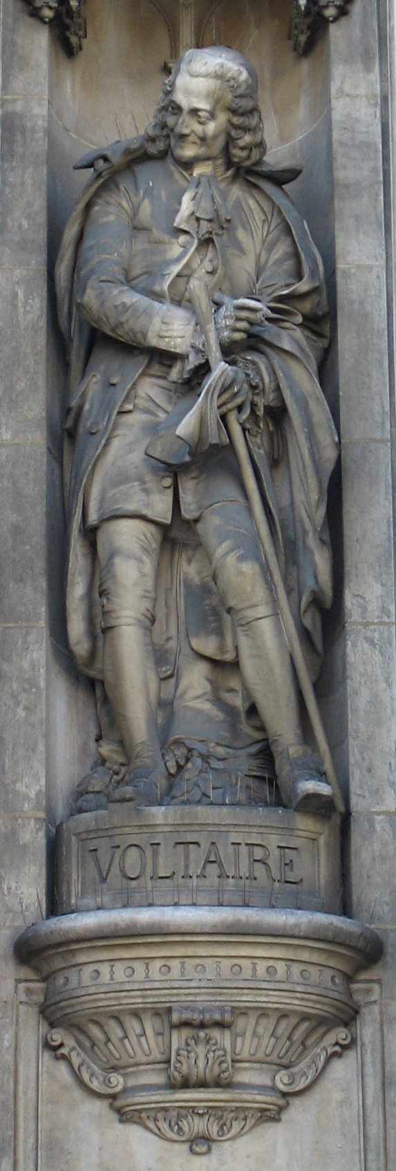 Voltaire, French writer and philosopher.Statue in the Hôtel de Ville of Paris. Photo taken by Thierry Bezecourt in Jan. 2006.